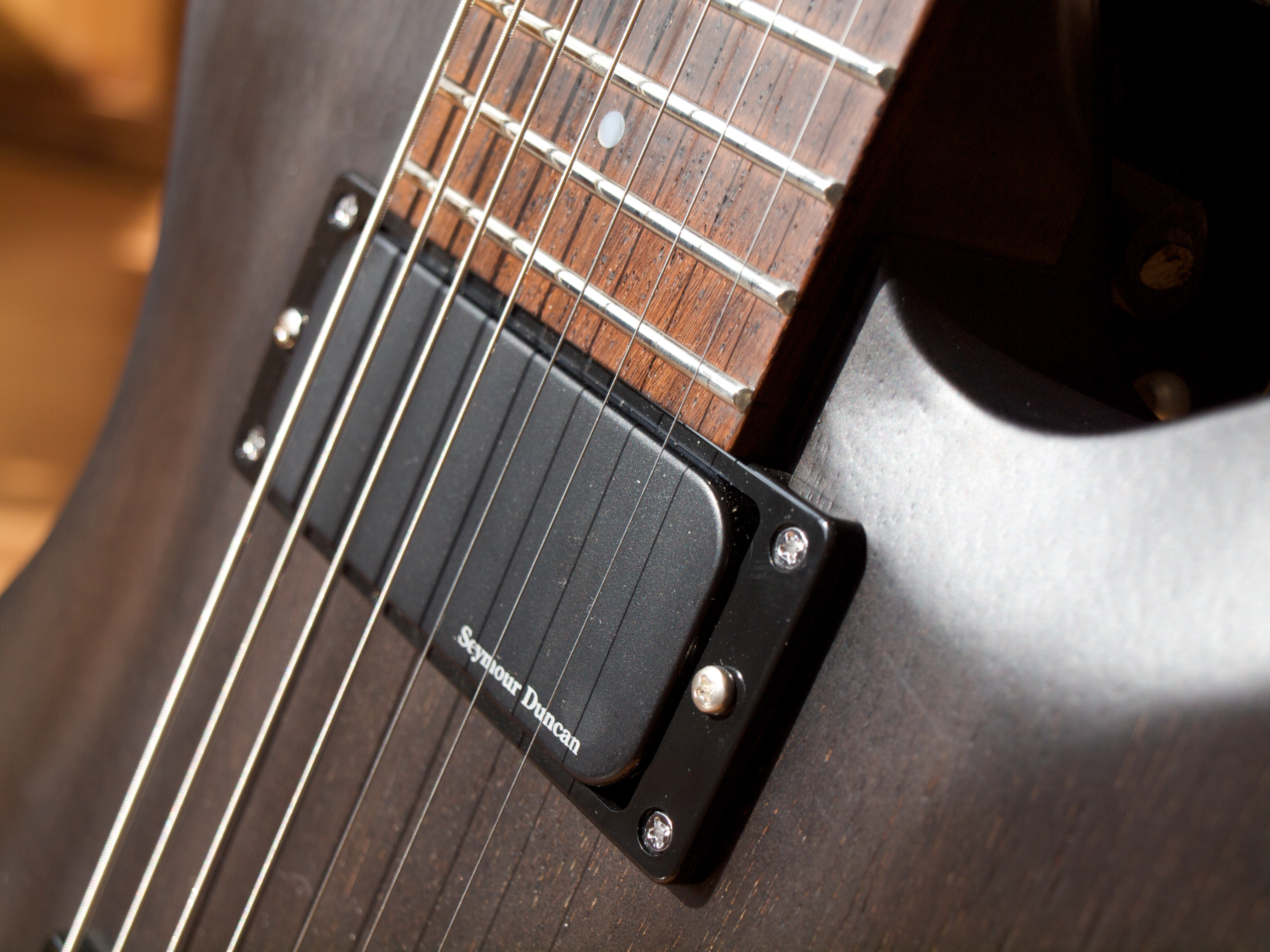 Framus Panthera 7